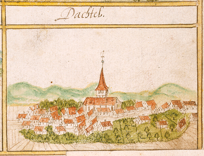 View of Dachtel, Aidlingen, from the forest register books created by Andreas Kieser